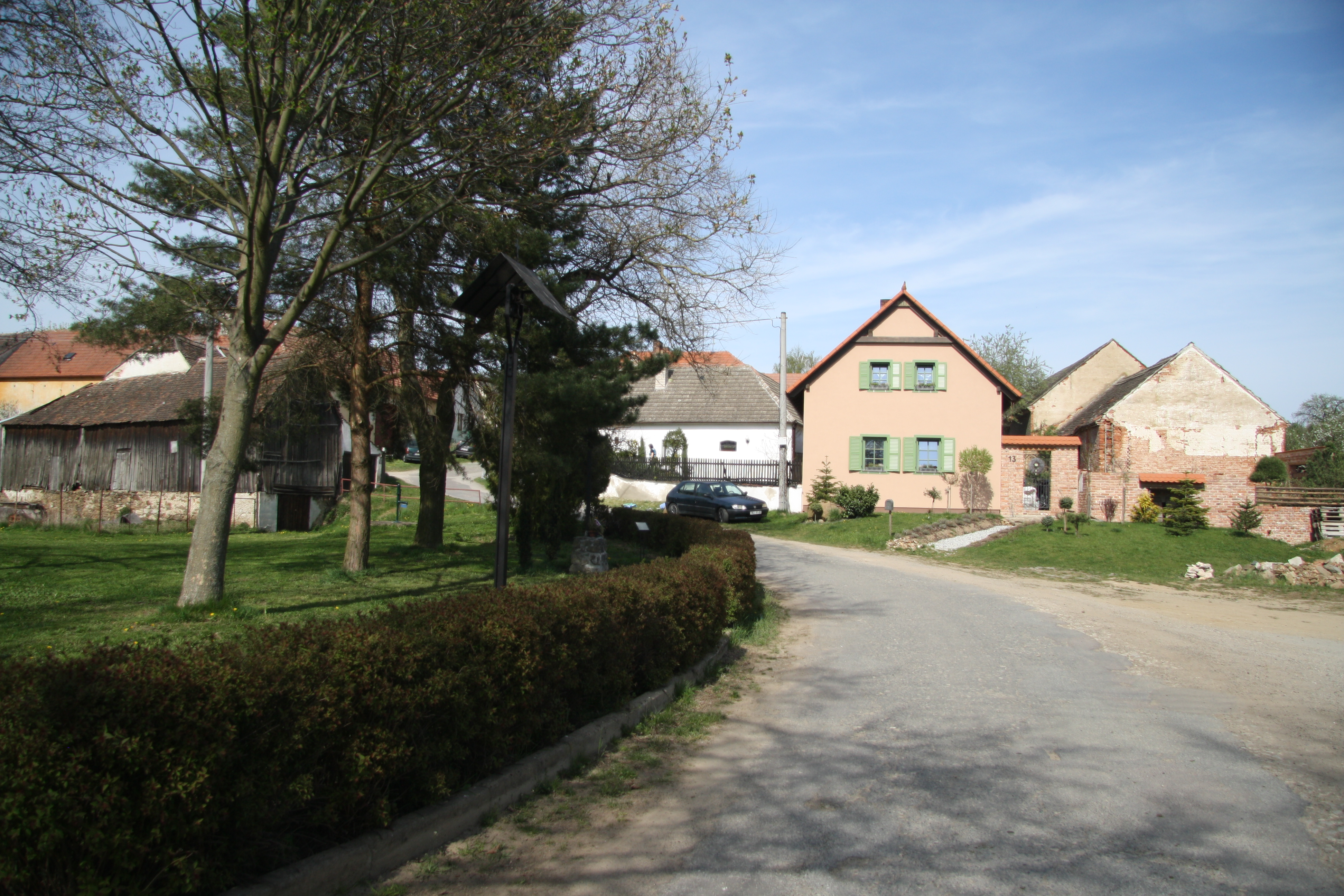 Center of Vacenovice, Jaroměřice nad Rokytnou, Třebíč District.